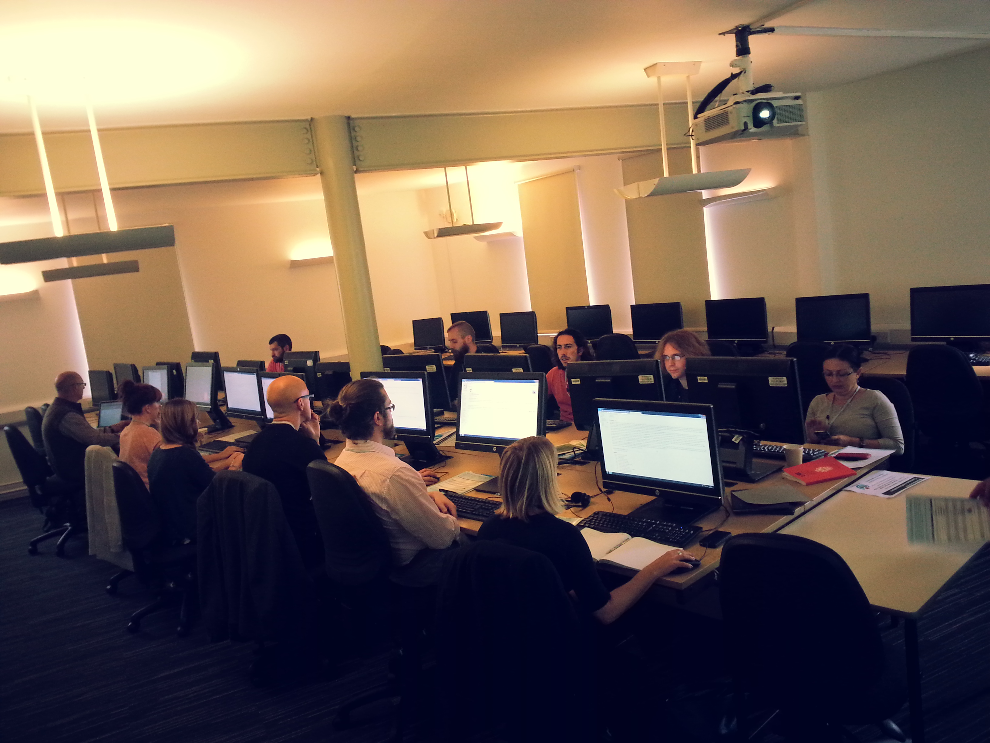 Participants